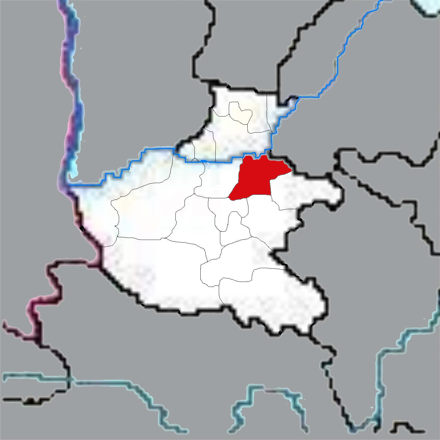 Maps of Henan Province of China